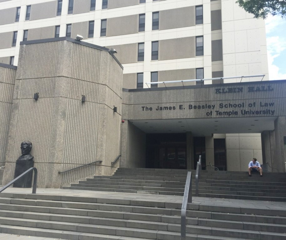 Close up of Klein Hall